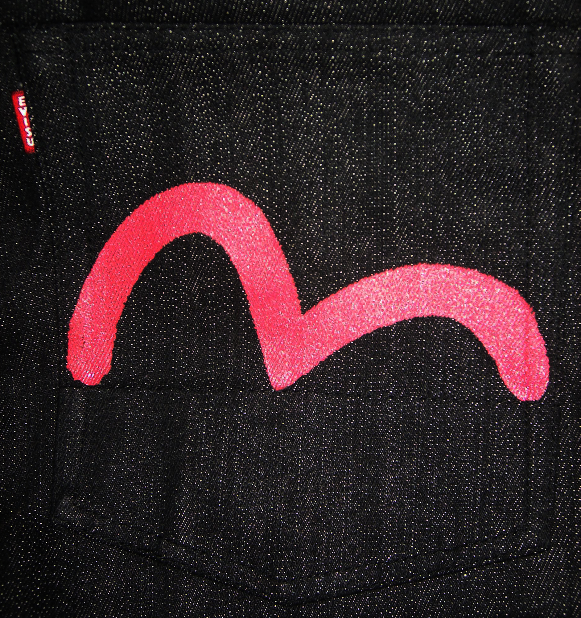 The backpocket of a pair of Evisu Jeans. The stylized gull is the instantly recognizable sign of Evisu (here in red).